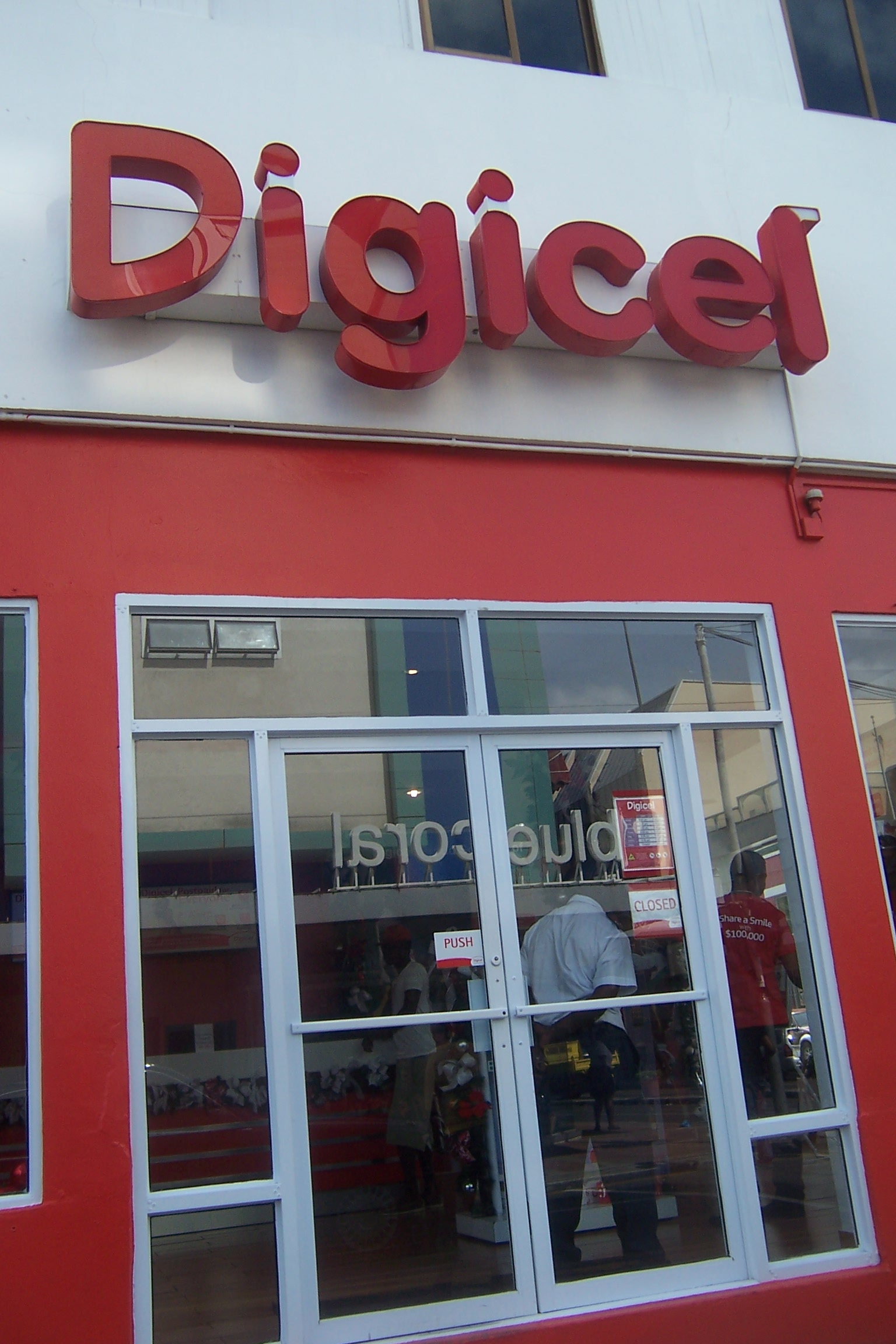 The front of a Digicel store in Castries, Saint Lucia, near Derek Walcott Square.